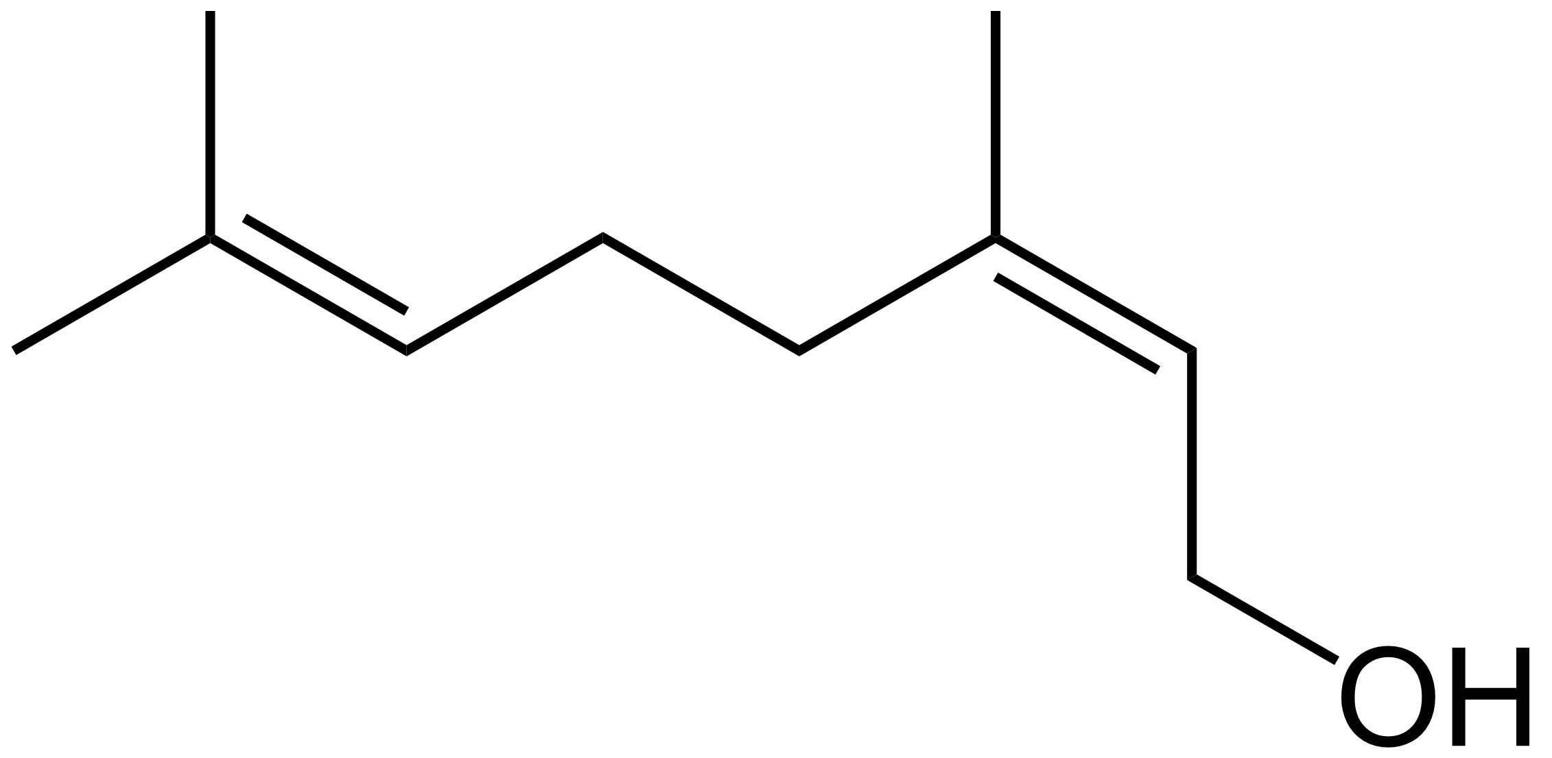 Structure of nerol